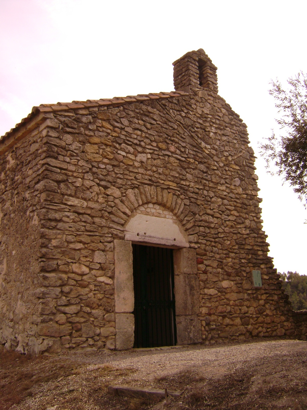 Saint Laurent chapel (9th century), Moussan, Aude ,France